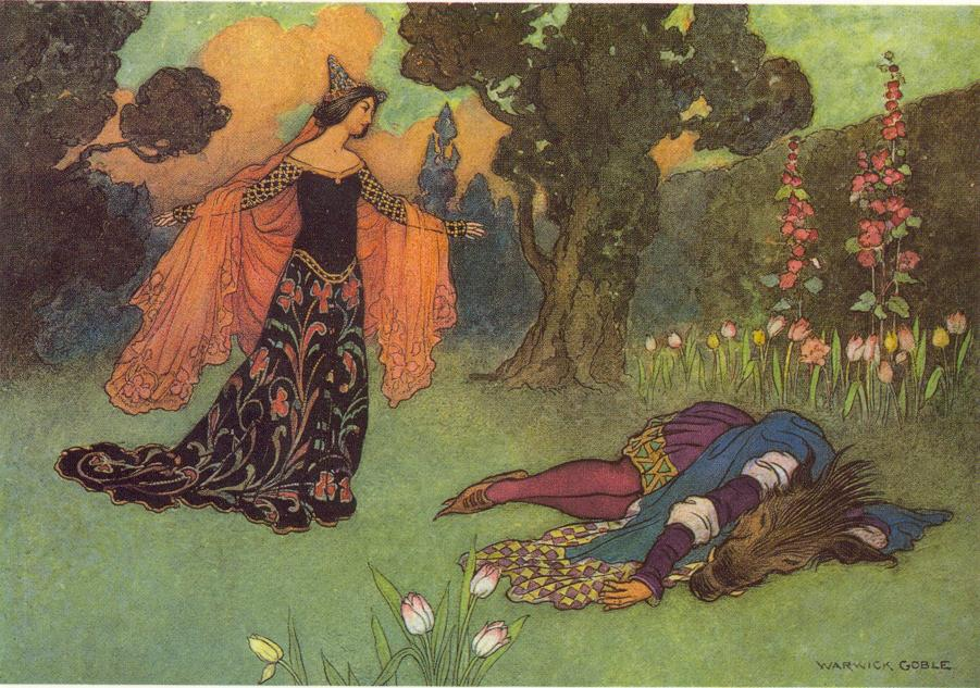 An illustrátion by Warwick Goble for Beauty and the Beast, 1913.